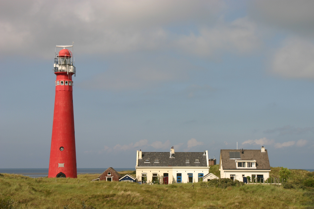 Lighthouse on Schiermonnikoog